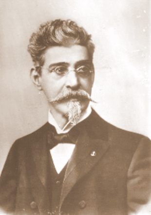 This image is in the public domain because under United States copyright law, originality of expression is necessary for copyright protection, and a mere photograph of an out-of-copyright two-dimensional work may not be protected under American copyright law. The official position of the Wikimedia Foundation is that all reproductions of public domain works should be considered to be in the public domain regardless of their country of origin (even in countries where mere labor is enough to make a reproduction eligible for protection).